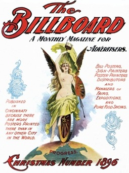 Billboard xmas 1896